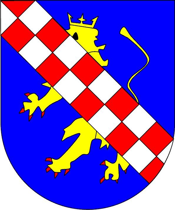 coats of arms of the lordship of Heldrungen